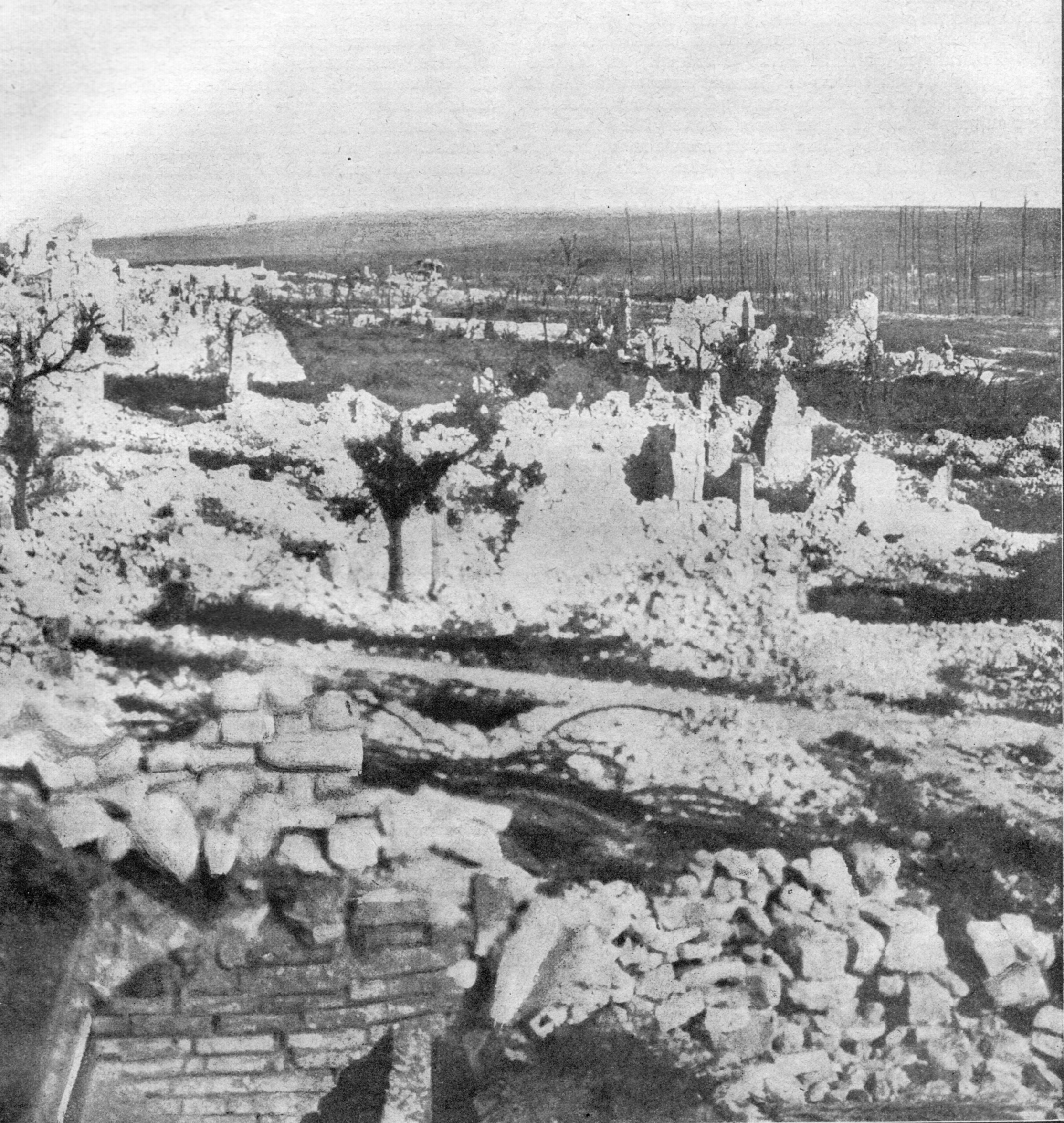 Haucourt at the bottom of hill 304 near Verdun